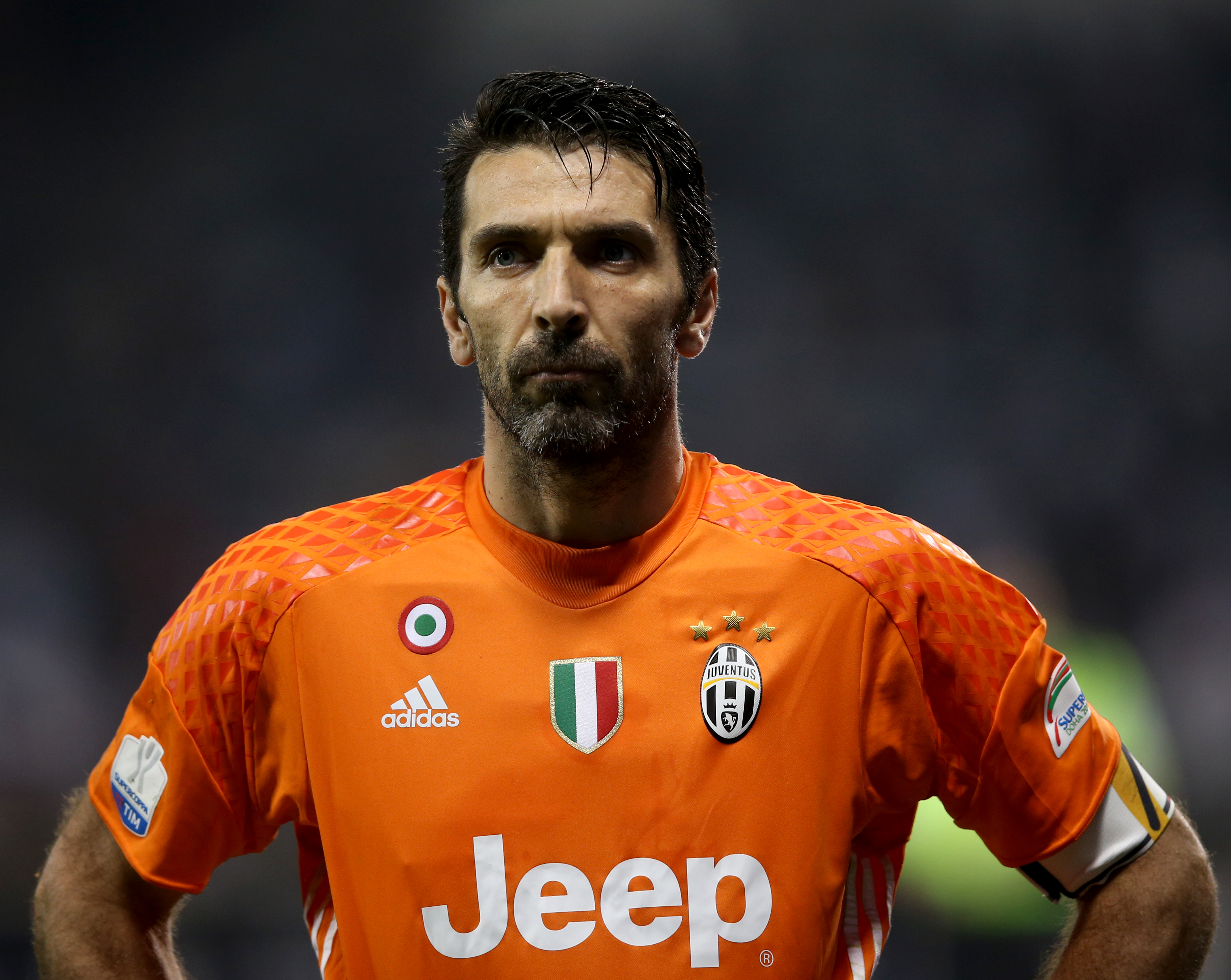 Juventus FC goalkeeper and captain Gianluigi Buffon reacts during the Italian Super Cup match against AC Milan in Doha, Qatar. Doha Stadium Plus - K Mohan.